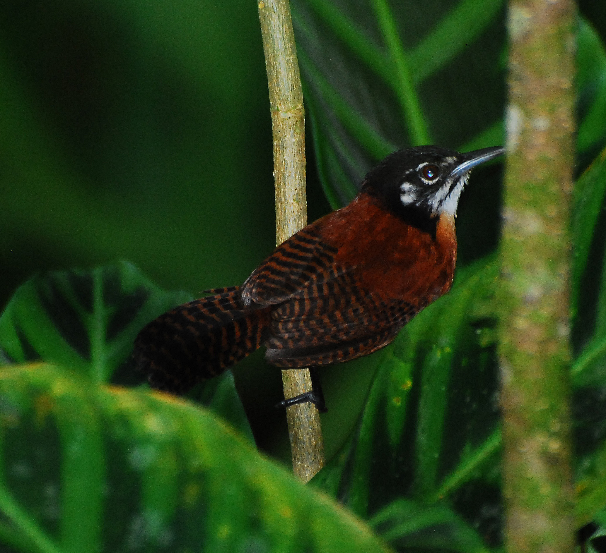 Bay Wren Thryothorus nigricapillus at Selva Verde Lodge, Costa Rica, 080226..